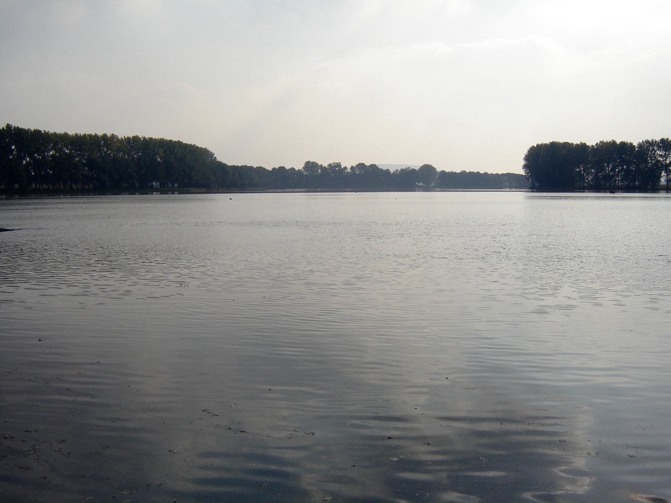 Dikkebusvijver lake in Dikkebus. Dikkebus, Ieper, West Flanders, Belgium